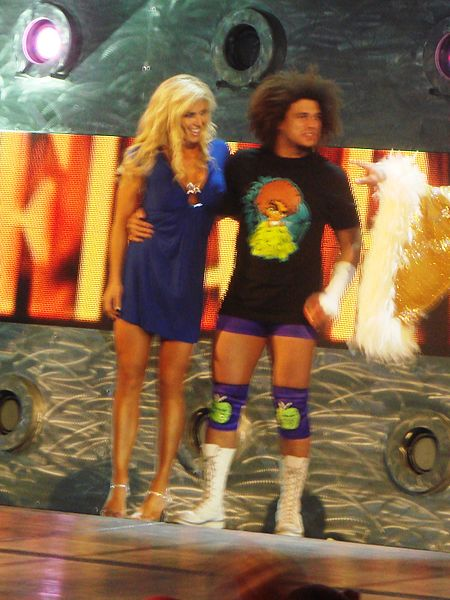 Torrie Wilson and Carlito at WWE Raw. Nashville Arena, Nashville, TN, April 30en:2007. Taken by me.